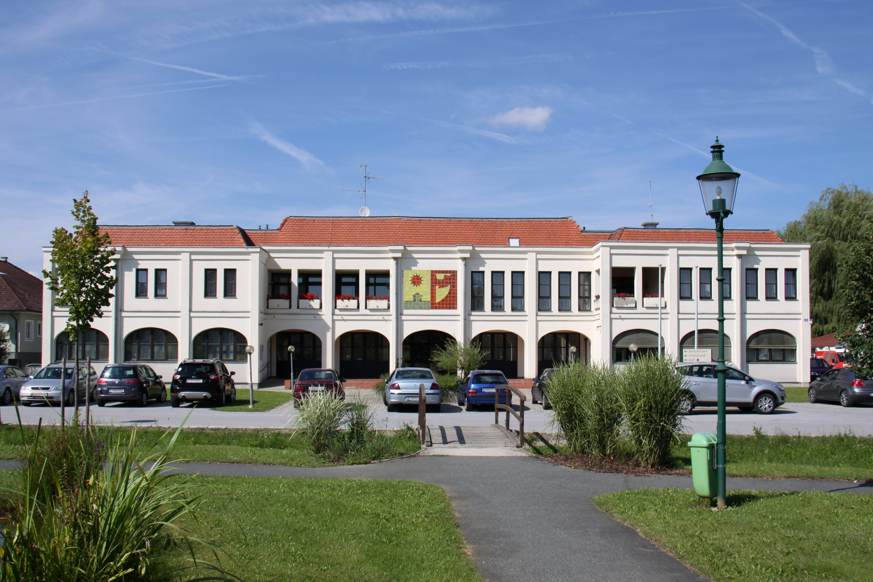 Kemeten - municipal office